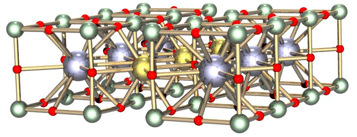 YBCO structure, based on Perovskite crystal structure.